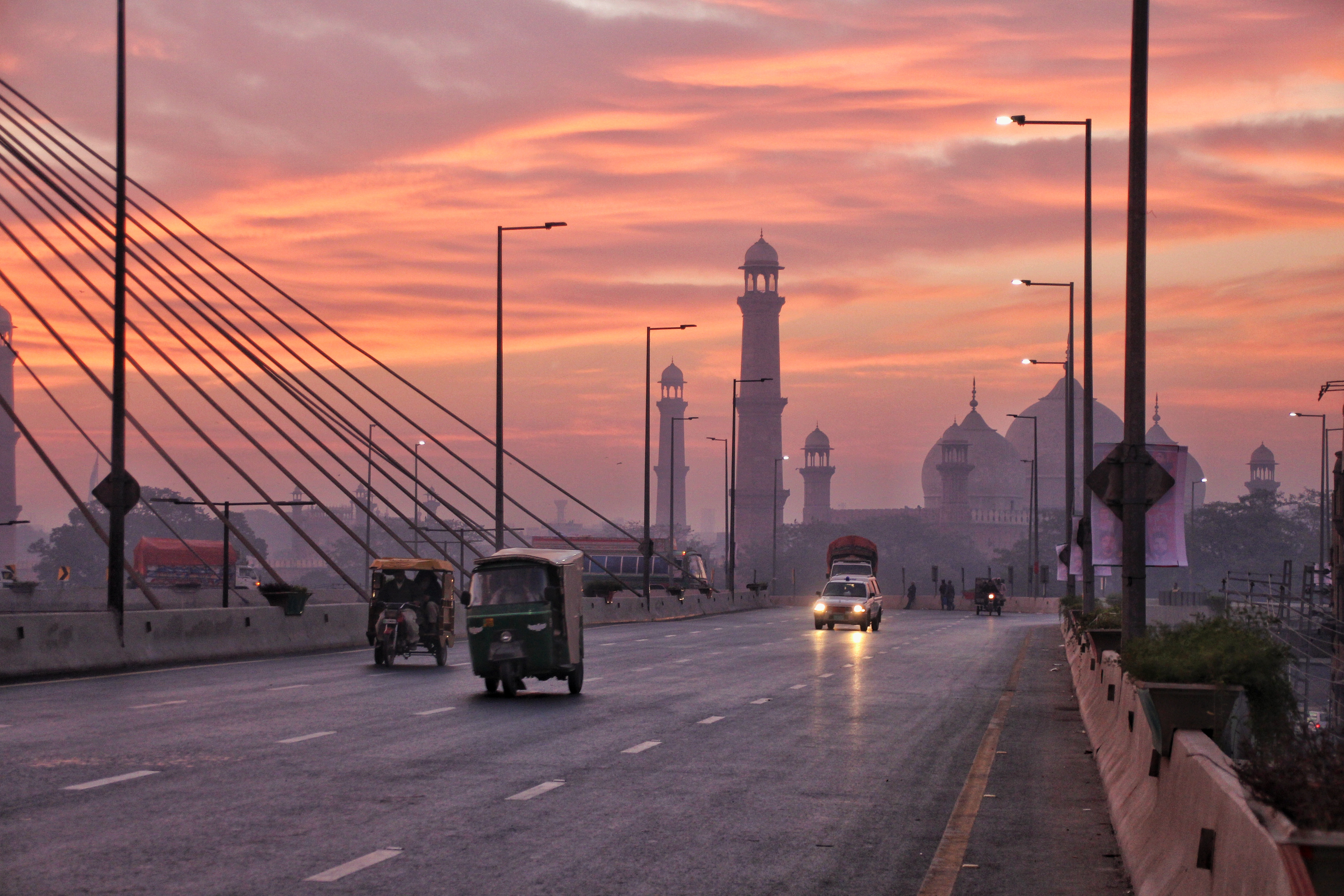 Badshahi Mosque (King’s Mosque) This is a photo of a monument in Pakistan identified as the PB-44